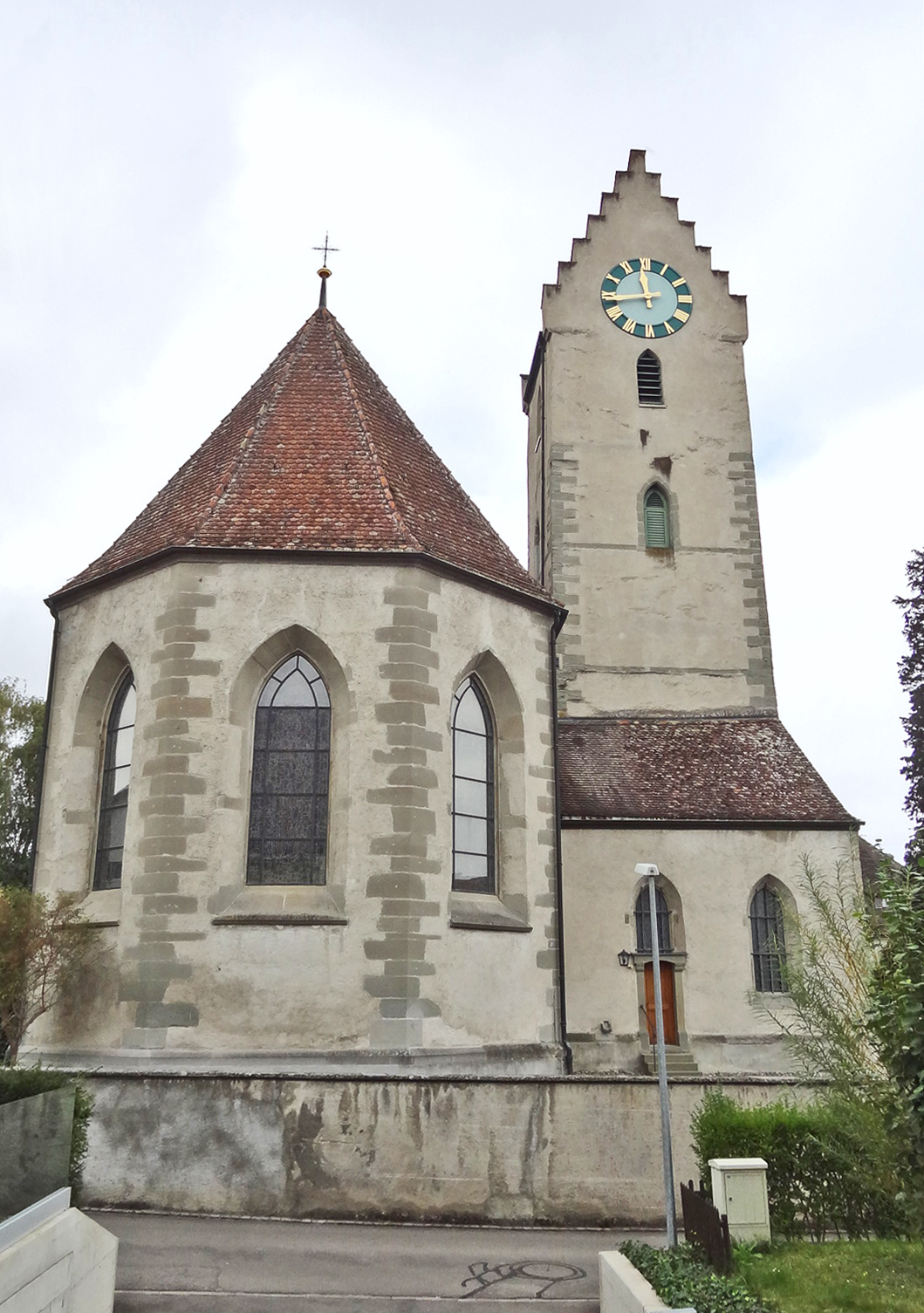 Saint Albin Church in Ermatingen, Switzerland.